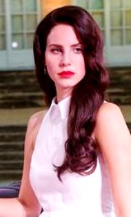 Lana Del Rey appearing in a promotional photoshoot for the Jaguar F-Type automobile in 2012.